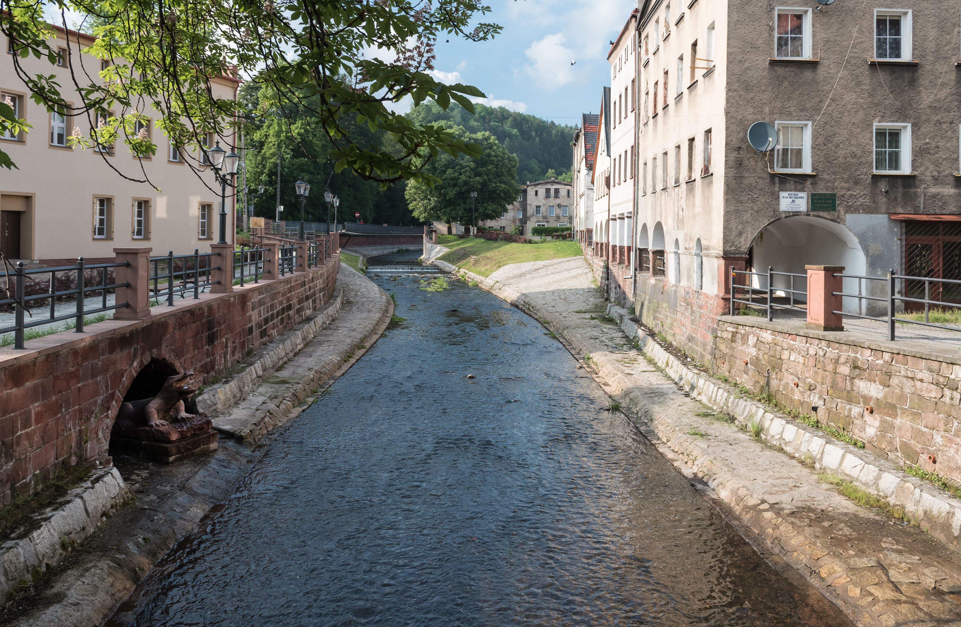 Włodzica river in Nowa Ruda